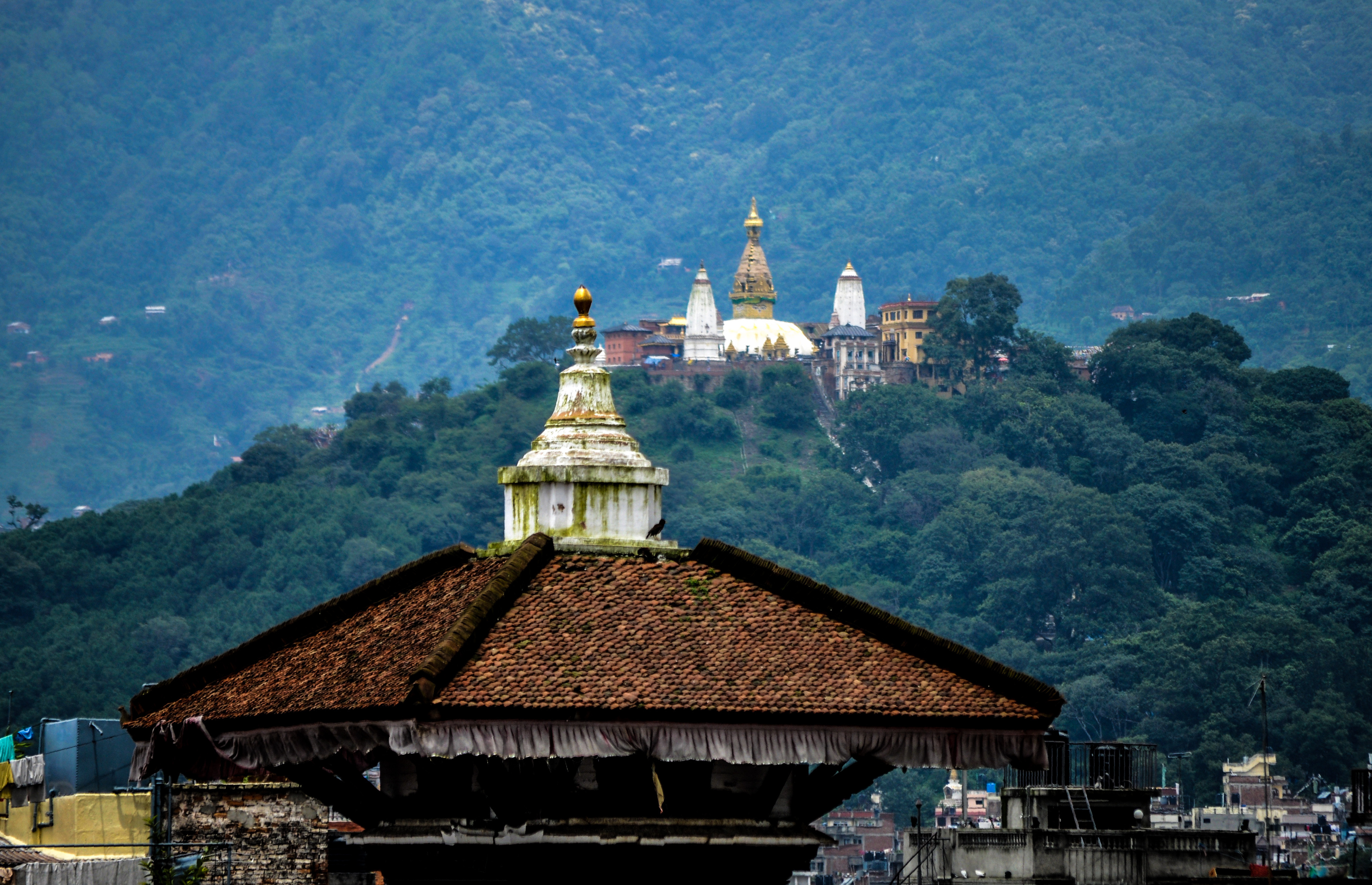 Swyambhunath an ancient religious complex atop a hill in the Kathmandu Valley, west of Kathmandu city seen from plain land. नेपाली: पहाडको माथिल्लो भागमा रहेको स्वयम्भूनाथ स्तूप समथर भूभागबाट ।